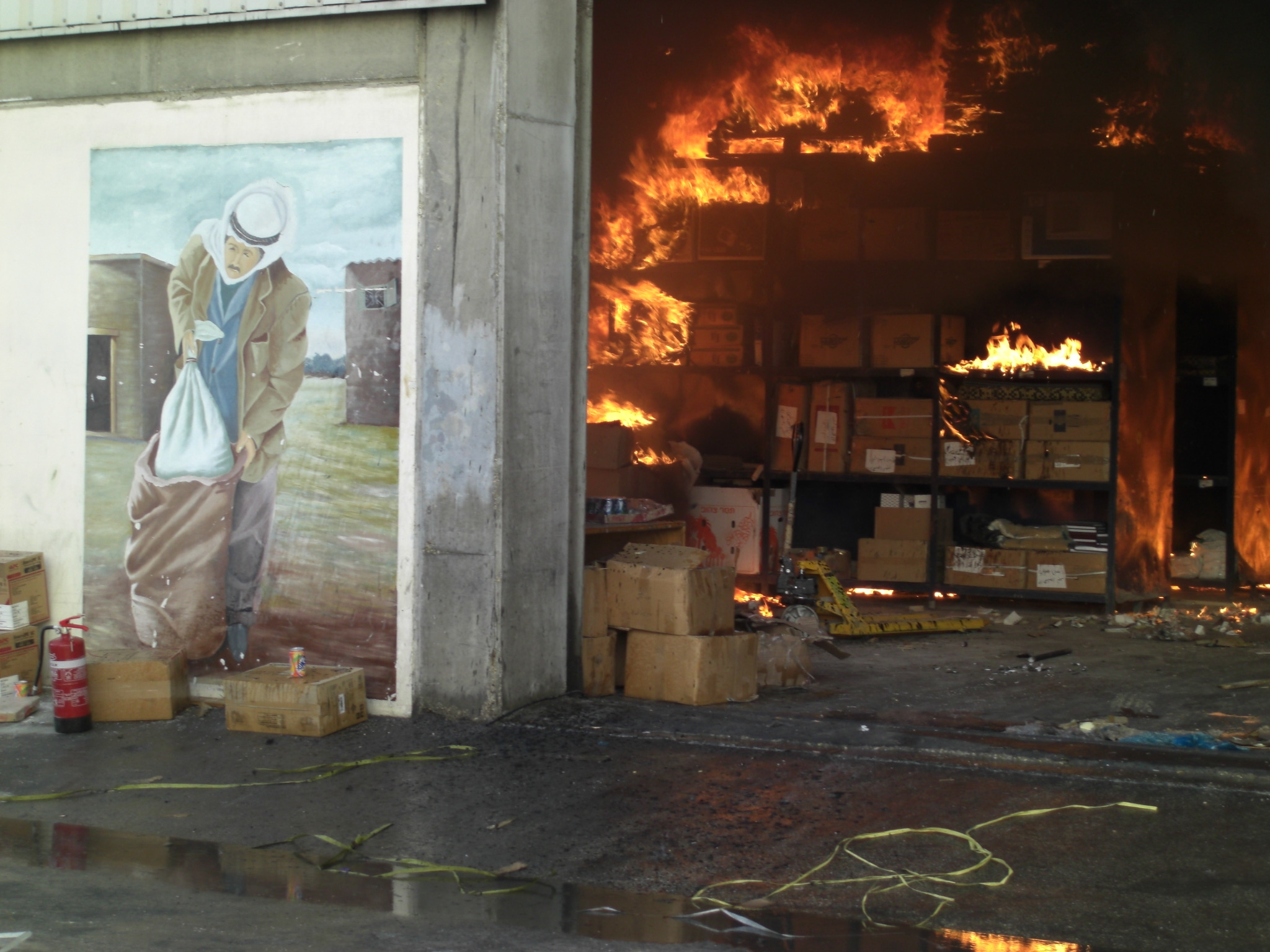 Flickr photo caption: "15th January 2009 - ISM photos taken in the aftermath of UNRWA building shelled by Israeli army in Gaza." UNRWA = United Nations Relief and Works Agency for Palestine Refugees in the Near East.